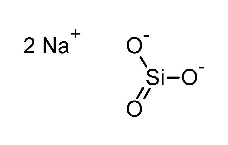 Sodium silicate